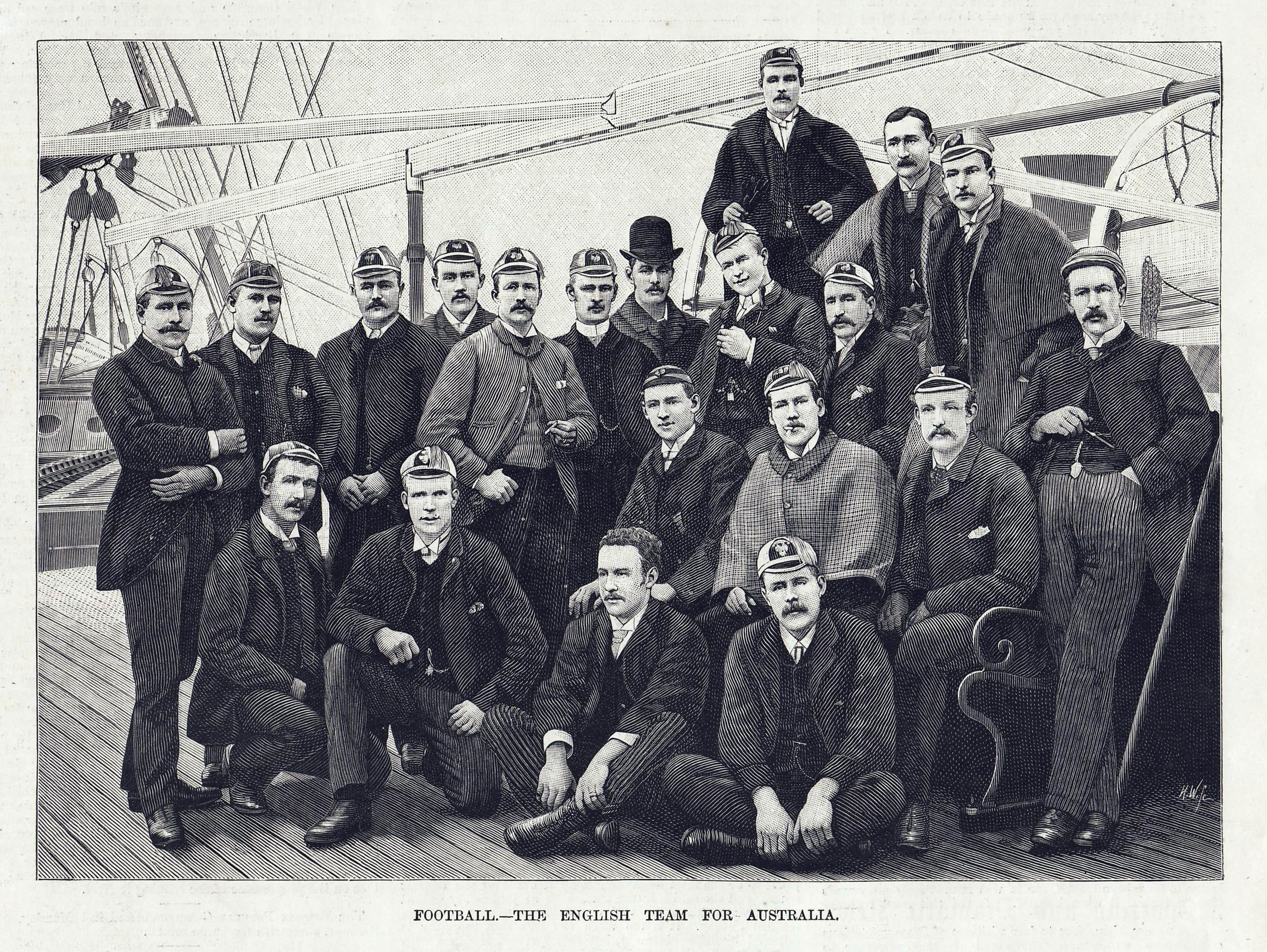 Illustration of the English rugby union team setting off for Australia